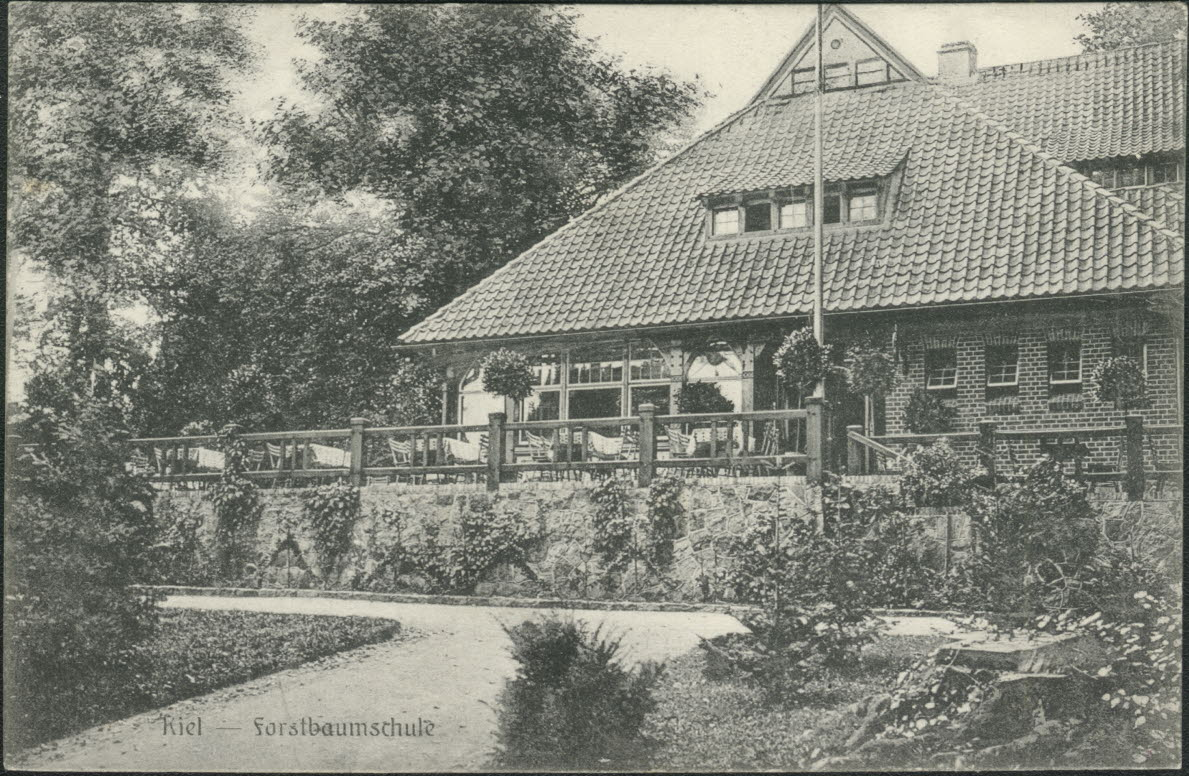 Kiel 1908: Restaurant Forstbaumschule on Düvelsbeker Weg 46 (Photographer Jacobsen, Wilhelm (1853-1910))